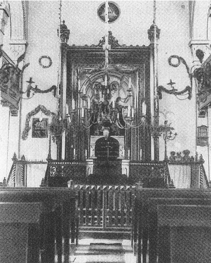 Interior of the synagogue of Wolfhagen (1859-1938)